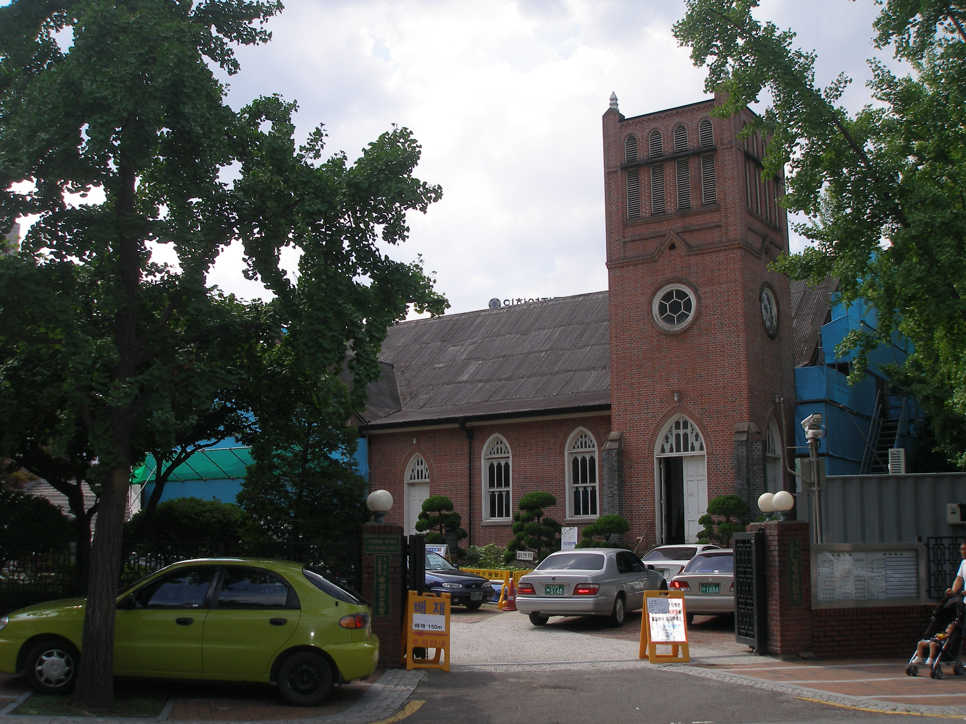 Jeong-dong First Methodist Church in Seoul